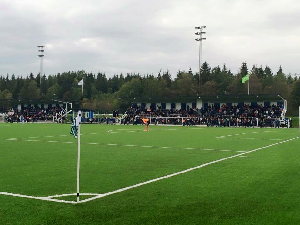 Kamratgården